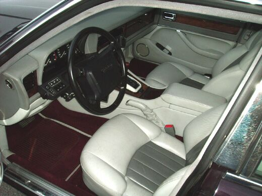 Jaguar "Insignia" Interieur